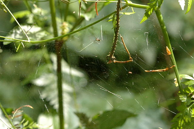 Linyphia triangularis web, from Commanster, Belgian High Ardennes .